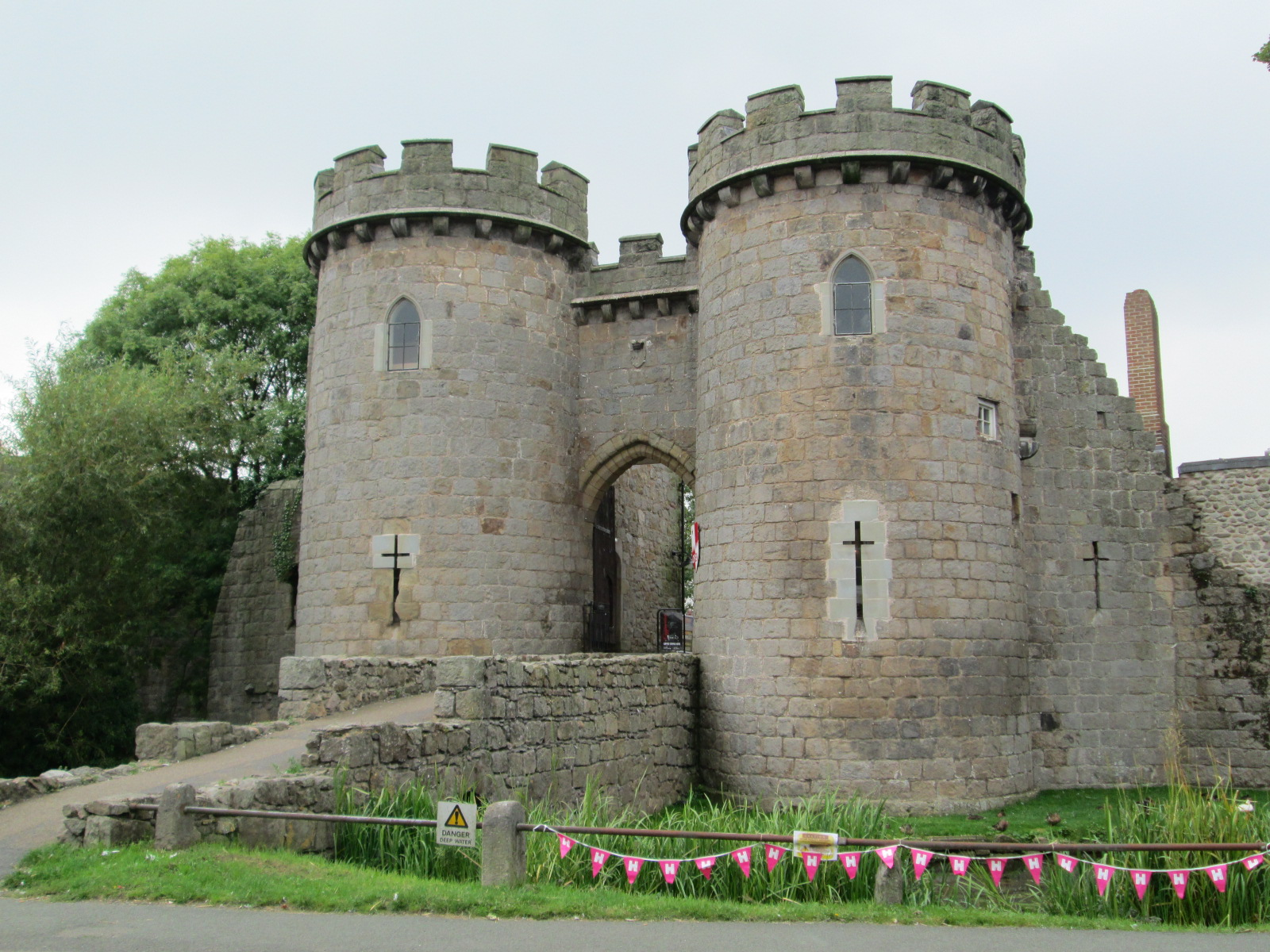 Gatehouse of Whittington Castle, Shropshire.